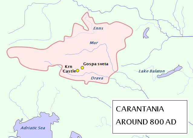 Carantania (Karantanija) at 800 AD; for approximate borders: look at Inzko Valentin (1978): Zgodovina Slovencev do leta 1918. Mohorjeva založba, Celovec. Str. 21; Čepič Zdenko et al. (1979): Zgodovina Slovencev. Cankarjeva založba, Ljubljana 1979, str. 127 in 133; Peršič Janez et al. (1983): Stare kulture. Mladinska knjiga, Ljubljana, str. 144.